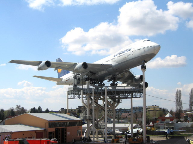 An amazing attraction!